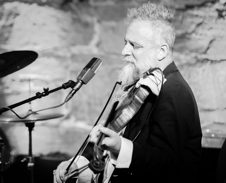 Mat Maneri at Særingfest in Smeltehytta. The concert was part of Kongsberg Jazzfestival and took place on 06. July 2018 in Kongsberg. Lineup:Mat Maneri (viola)Randy Peterson (drums)